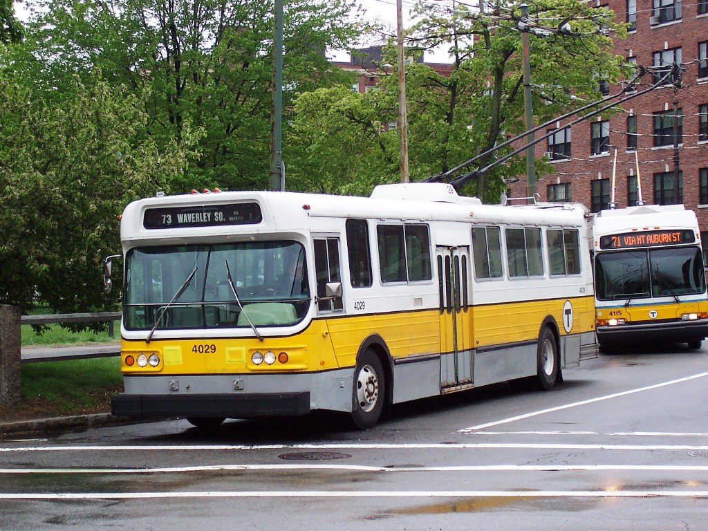 MBTA trackless trolley #4029 at Harvard Square, preparing to serve the #73 line. This vehicle has since been scrapped. Behind #4029 is a low-floor trackless trolley built by Neoplan USA.